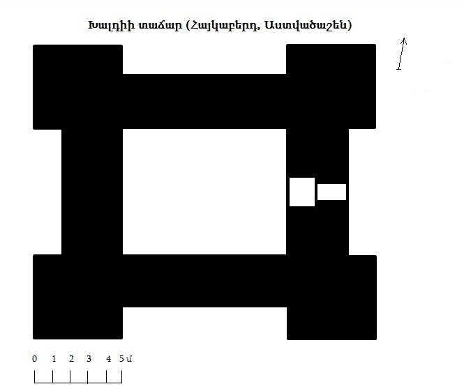 Temple of Khaldi in Haykaberd, Astvatsashen villag